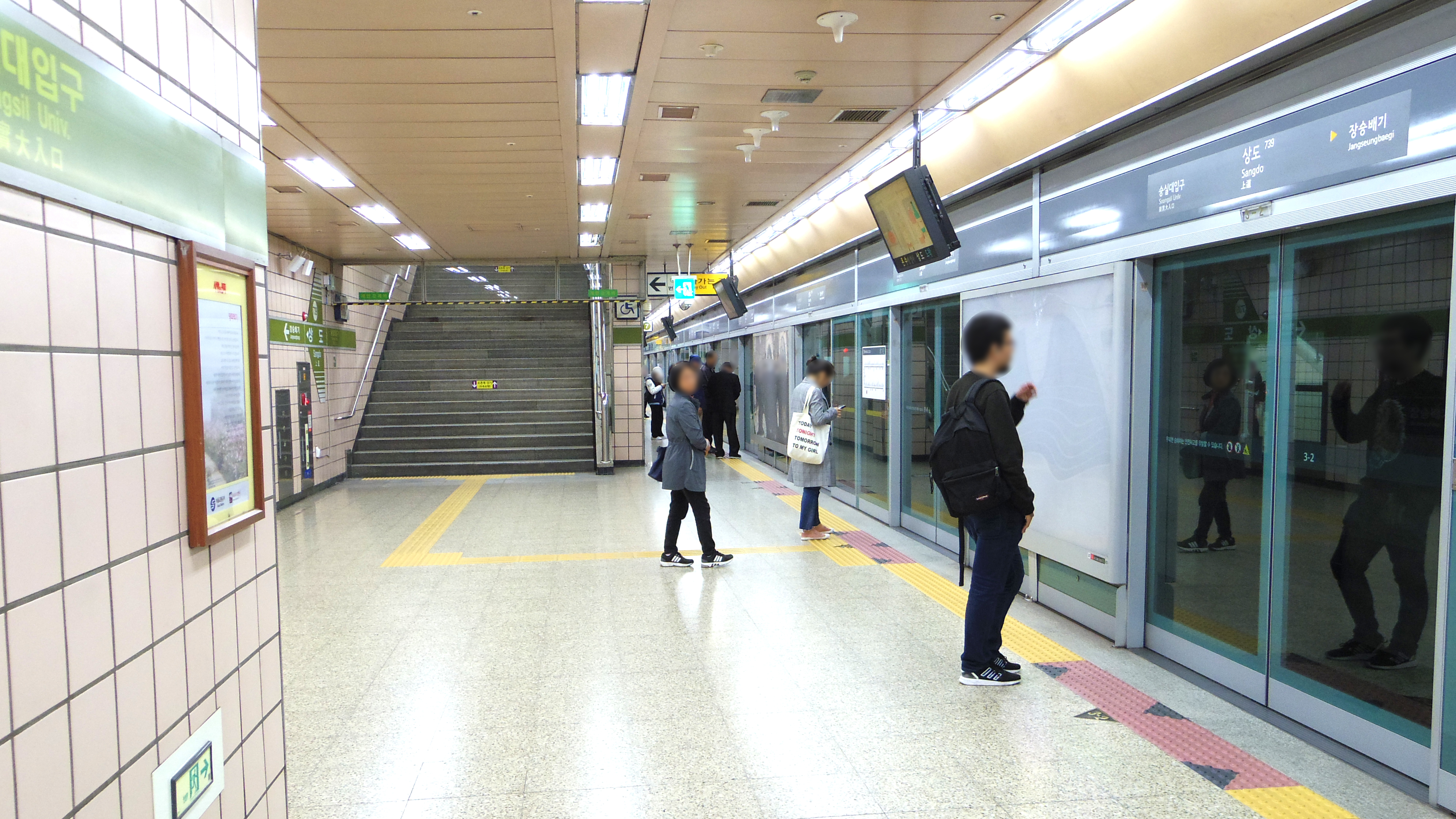 The Onsu-bound platform at Sangdo Station on the Seoul Subway Line 7 in Dongjak-gu, Seoul, Republic of Korea(South Korea)